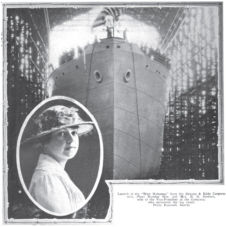 Launch of SS West Hobomac at the Skinner & Eddy shipyard, Seattle, Washington, 1918. The inset features the ship sponsor, the company vice-president's wife, Mrs. H. G. Seaborn.